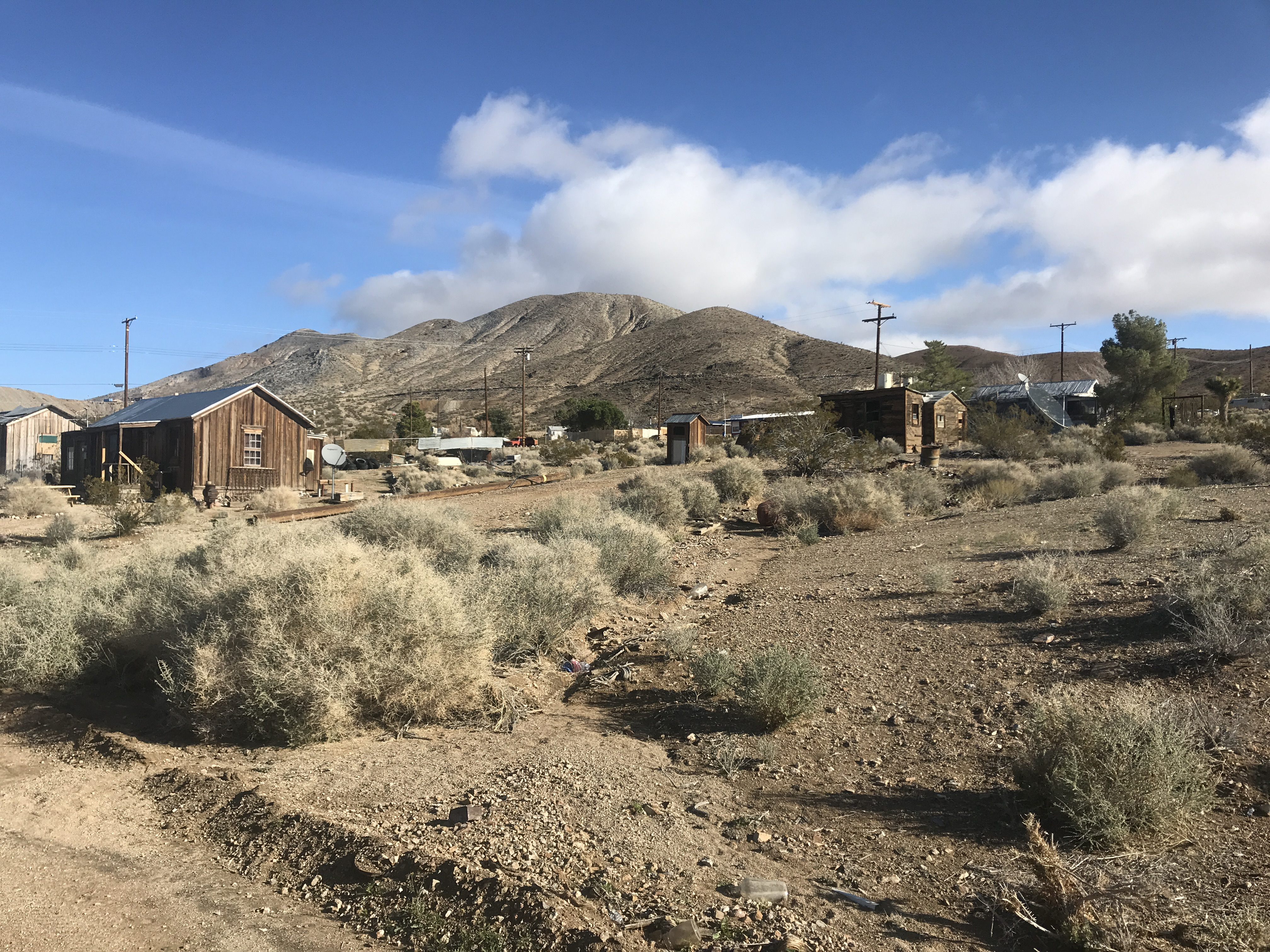 Water for Darwin is gravity fed by a pipe that originates at a spring on the grounds of the China Lake Naval Air Station nearby.